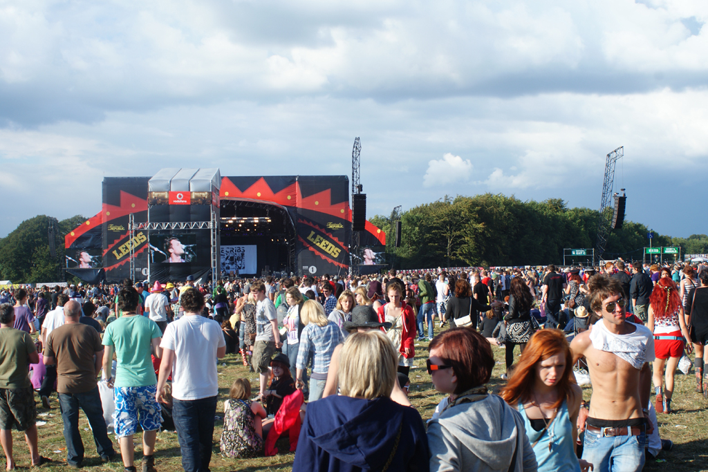 The Cribs and the Crowd at the 2010 Leeds Festival. Taken on Friday the 27th of August 2010.